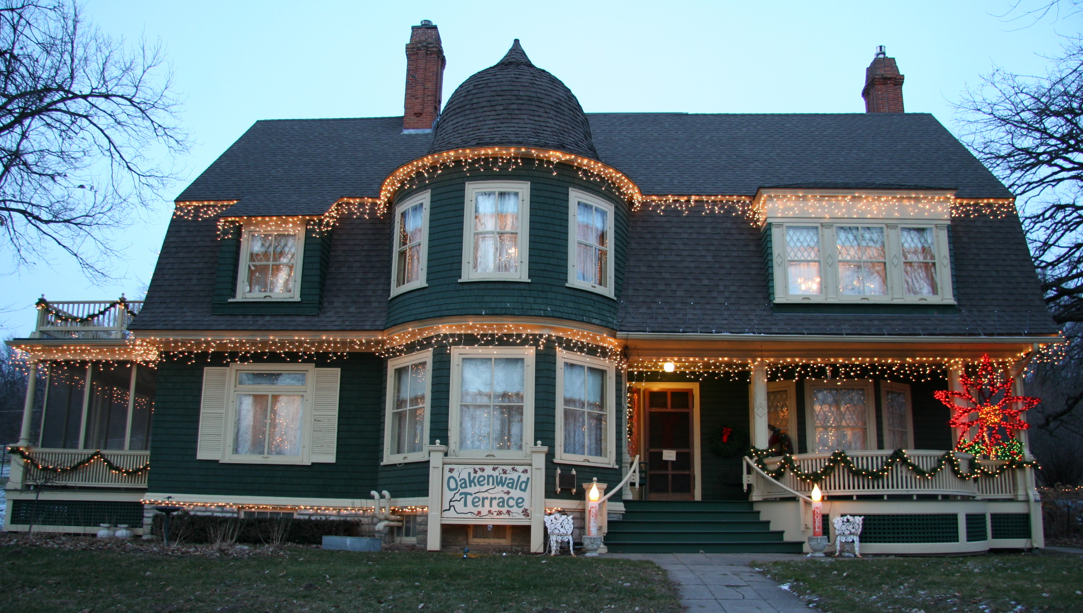 Illuminated Christmas decorations on the Ellen Lovell House, also called Oakenwald Terrace, a bed and breakfast on the National Register of Historic Places in Chatfield, Fillmore County, Minnesota